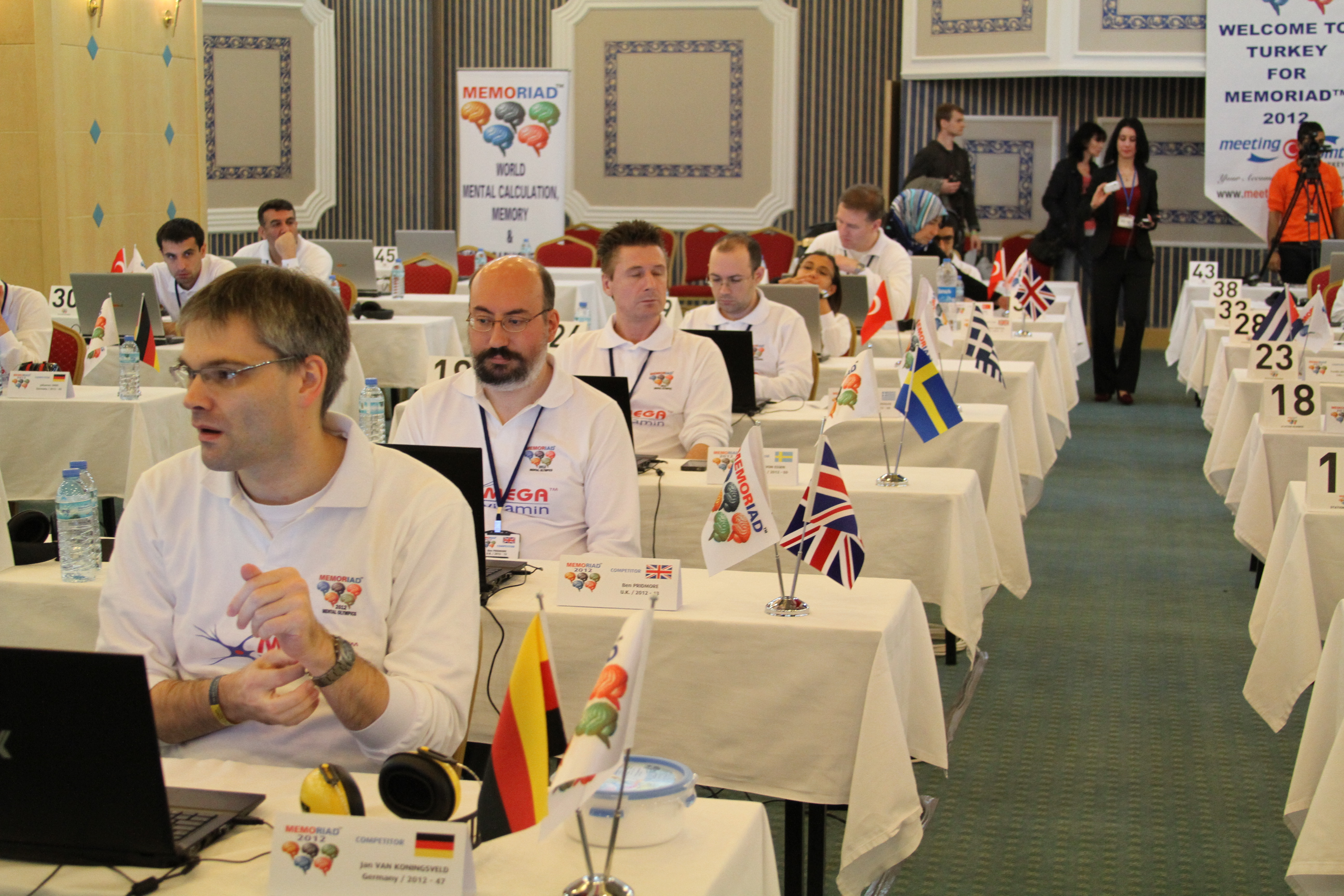 Memoriad World Mental Sports